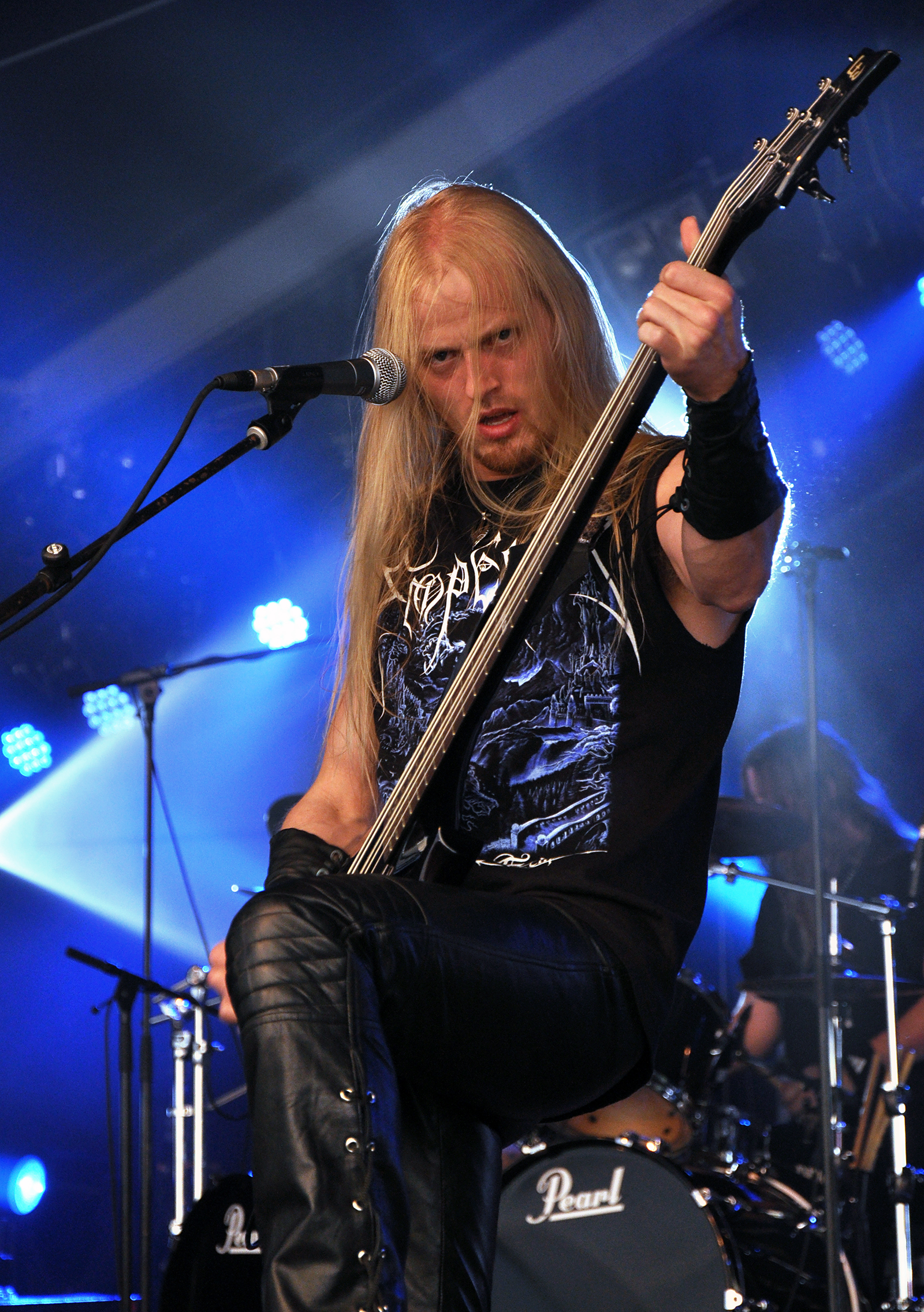 Wizziac, the bassist of Keep of Kalessin, at the Metal Mean festival, in Méan (Belgium) on the 20th of August.